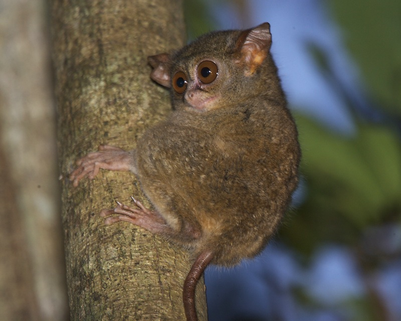 Tarsier (Tarsius sp.). A little nocturnal creature found in north east Sulawesi. It has the largest eye to body size ratio of all mammals. Photo 9 July 2006. Habitat: Tangkoko National Park Geography suggests this is not the Spectral Tarsier (Tarsius tarsier), but an undescribed species called Tarsius sp. 1 by Shekelle and Groves (2010). Reference: Groves, C.; Shekelle, M. (2010). "The Genera and Species of Tarsiidae" (PDF). International Journal of Primatology.